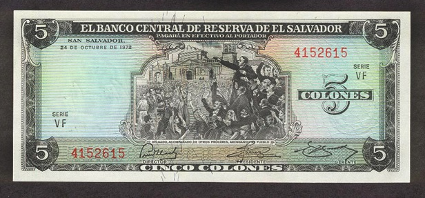 imagén de un billete de cinco colones alvadoreños que portaba la imagen del 'Pimer Grito de Independencia de 1811' de Vicente Ahumada.